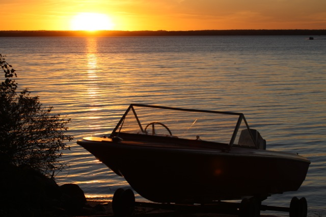 Sept sunset at Sunset View Beach, Turtle Lake Saskatchewan.